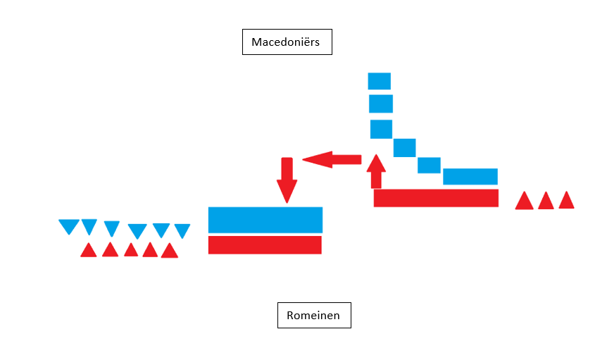 Battle of Cynoscephalae